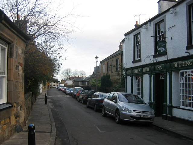 Duddingston. Famous village within Edinburgh, at the foot of Arthur's Seat. The Sheep Heid is a very old pub, and has no telly or smoke.